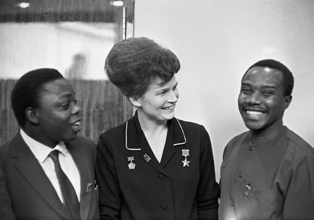 “Valentina Tereshkova and African delegates”. Pilot-Cosmonaut of the U.S.S.R. Valentina Tereshkova, the leader of a delegation from the Tanganyika African National Union, right, and a member of the Nambutu delegation, left.